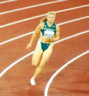 Melinda Gainsford-Taylor at the 2000 Summer Olympics